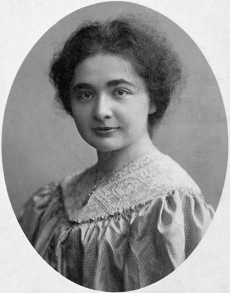 A portrait of Maja Einstein, the German physicist Albert Einstein's younger sister. 1900s